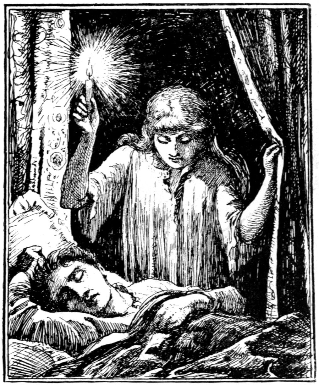 Image from East of the Sun and West of the Moon in The Blue Fairy Book.